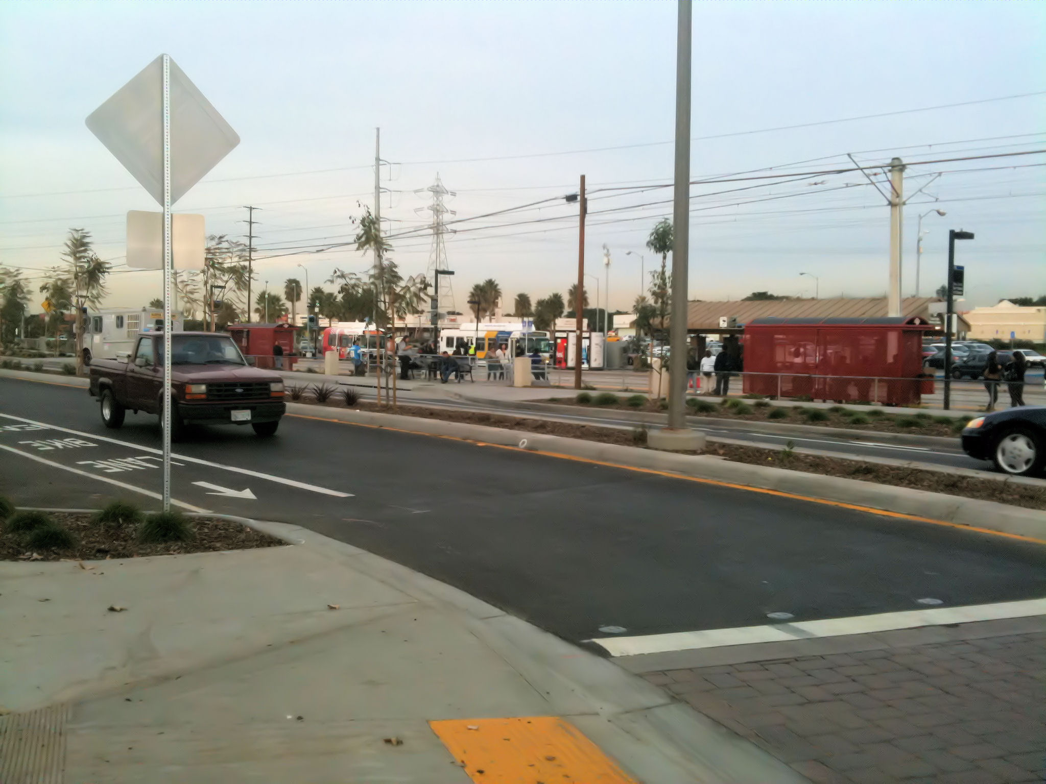 Industrial Blvd